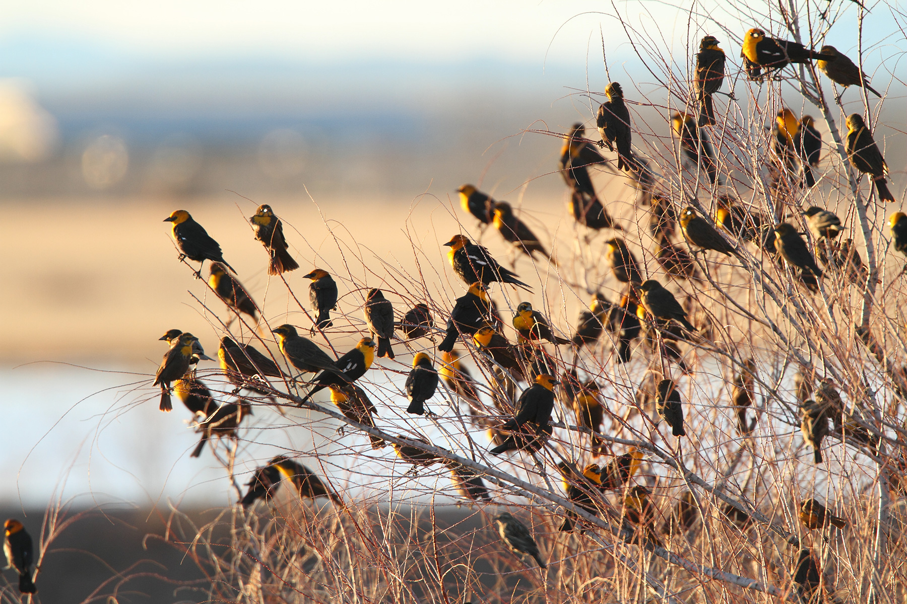 A flock of Yellow-headed blackbirds (Xanthocephalus xanthocephalus) settling on reeds. Whitewater Draw, Arizona